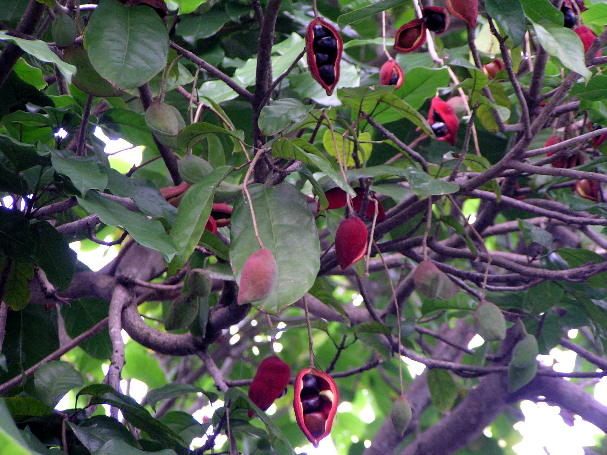 Pingpo